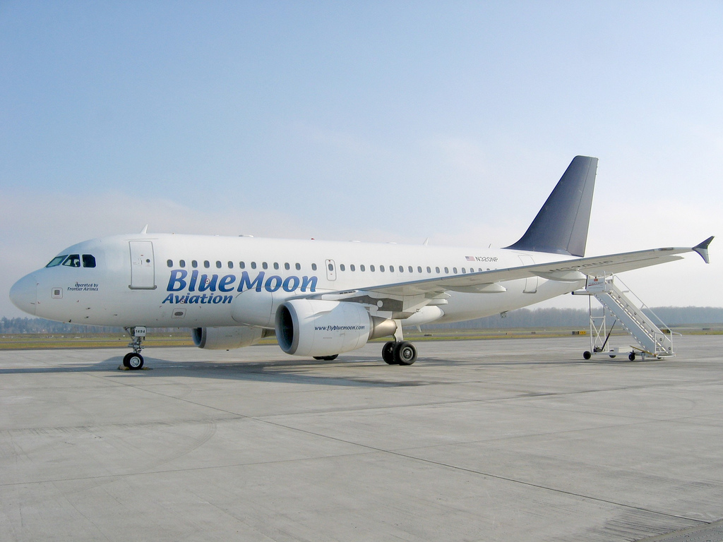 Blue Moon Aviation Airbus A319